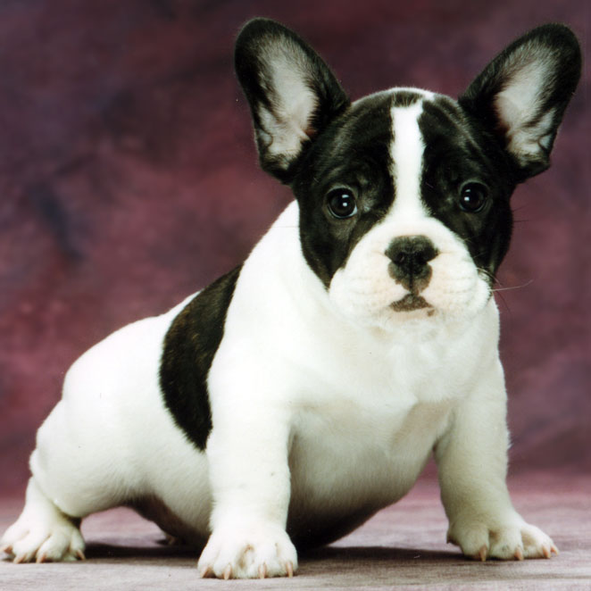 Image shown is Champion Bullmarket Versace, champion French Bulldog and Westminster BOB winner.